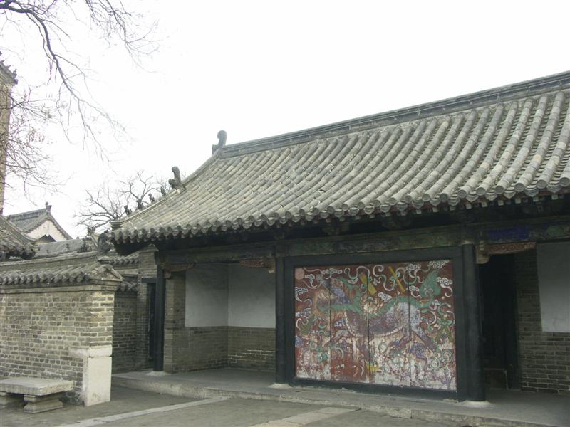 the Kong Family Mansion in Qufu